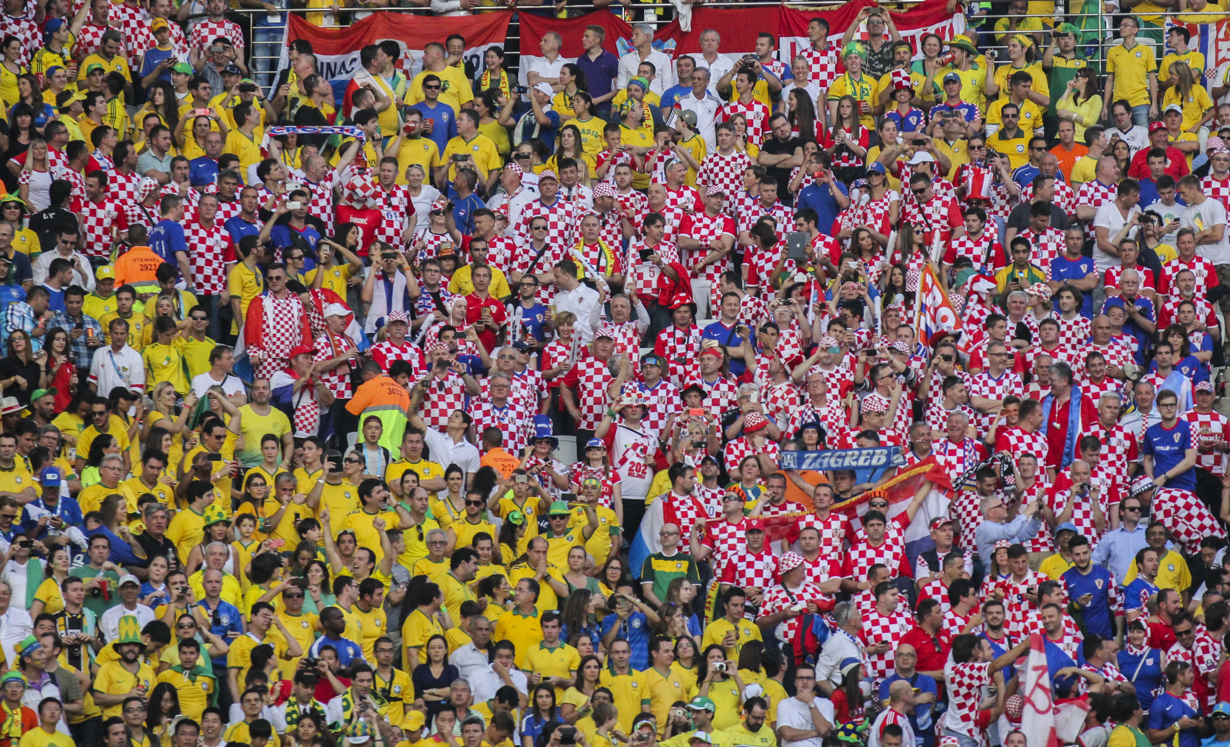 Brazil and Croatia match at the FIFA World Cup (2014-06-12; fans)